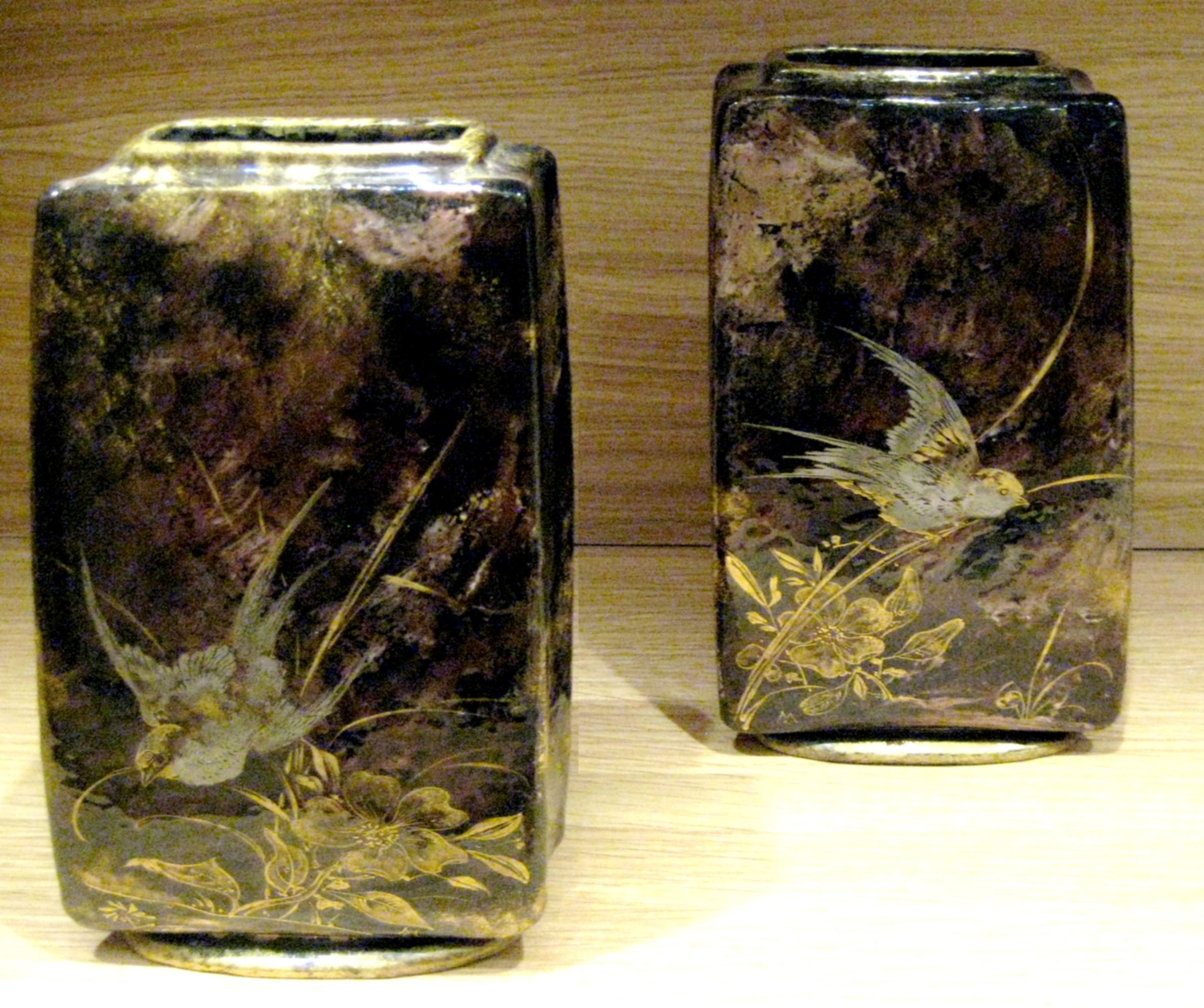 Manufactured by Haviland and Company, 1872 - 1882 French